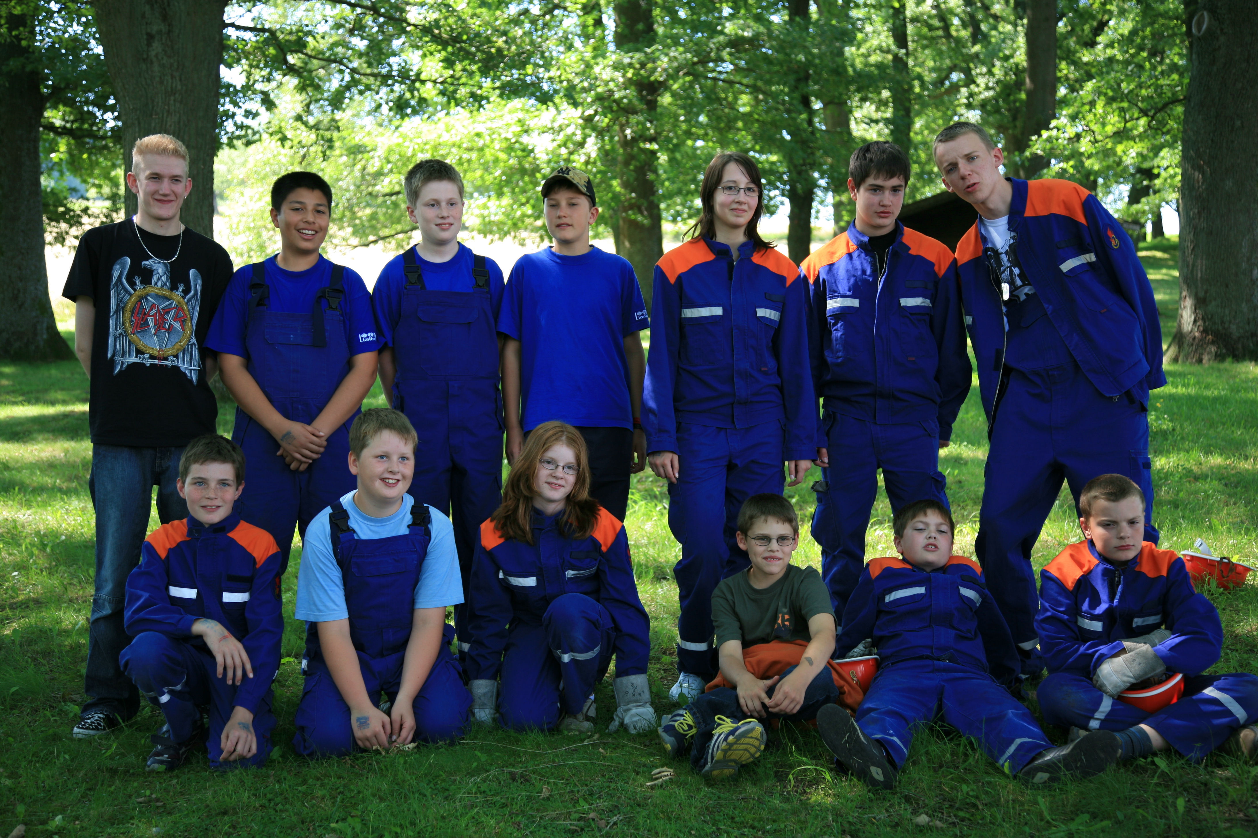 Young firefighters from the auxiliary fire brigade Nieder-Kainsbach